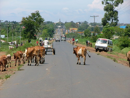 Narok town,a few kilometers from the Maasai Mara .Enjoy interaction with cattle.It is a cattle city. This is an image with the theme "Africa on the Move or Transport" from: Kenya